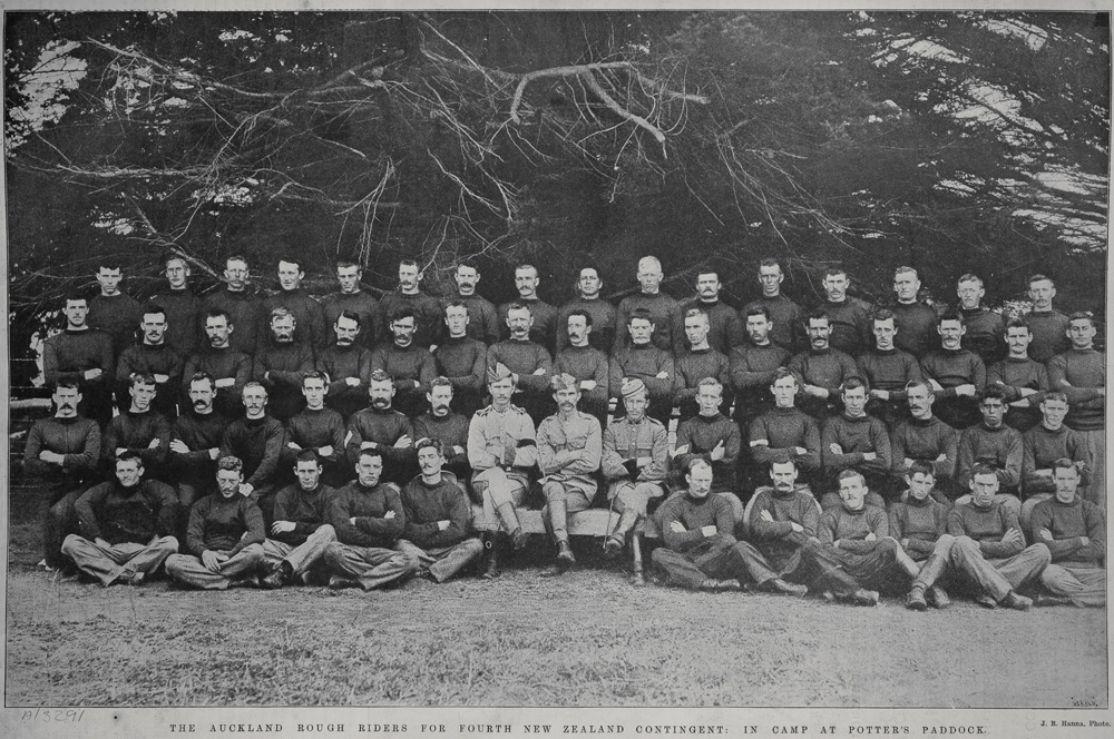 Caption reads: "The Auckland rough riders for the Fourth New Zealand Contingent in camp at Potters Paddock" Auckland members of the Fourth New Zealand Contingent (along with the Third Division known as the Rough Riders) in camp in Auckland before deployment to South Africa in the Second Boer War.